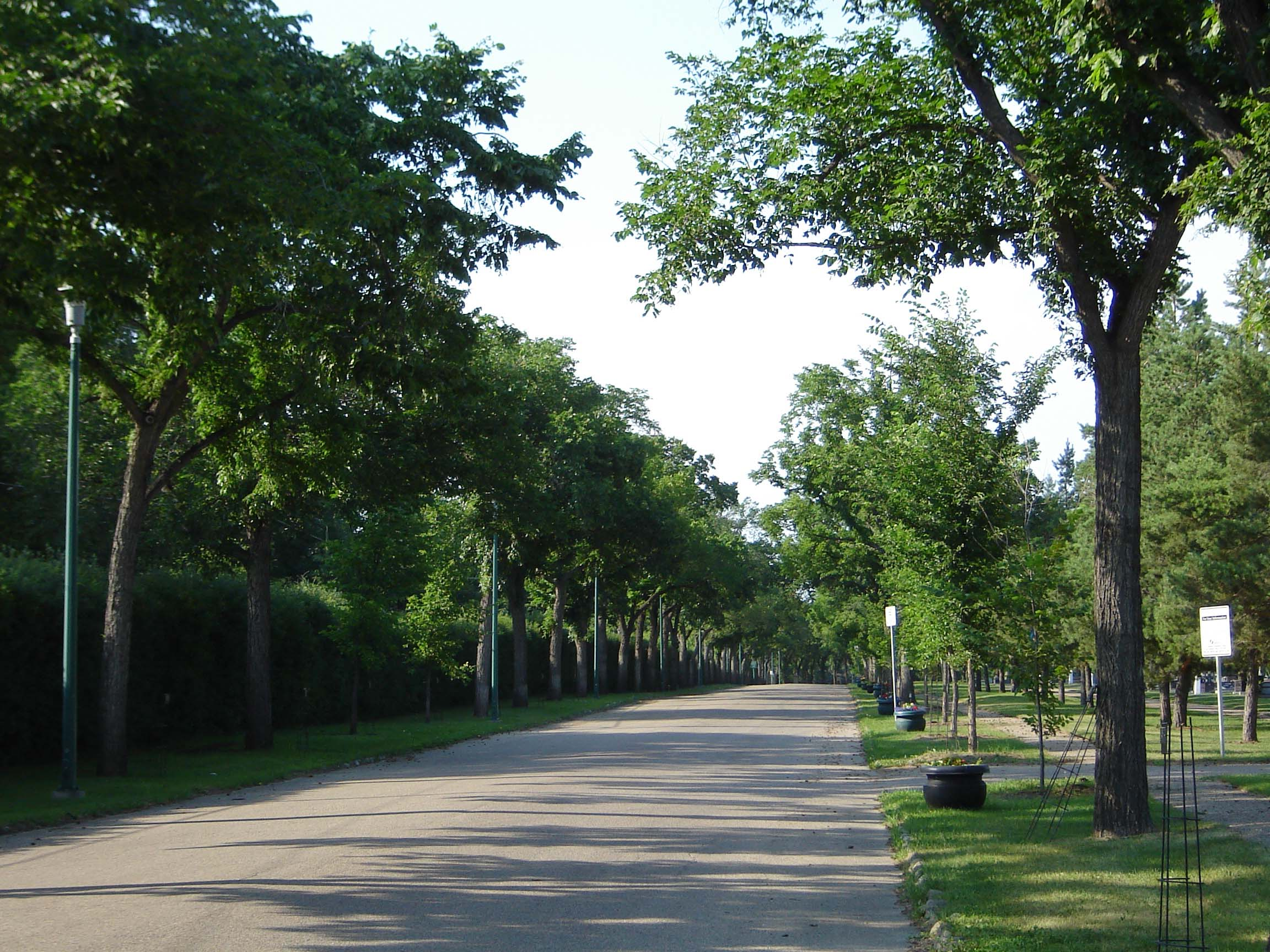 The Next-Of-Kin Memorial Avenue at Woodlawn Cemetery Saskatoon Saskatchewan Canada City of Saskatoon · Departments · Infrastructure Services · Parks